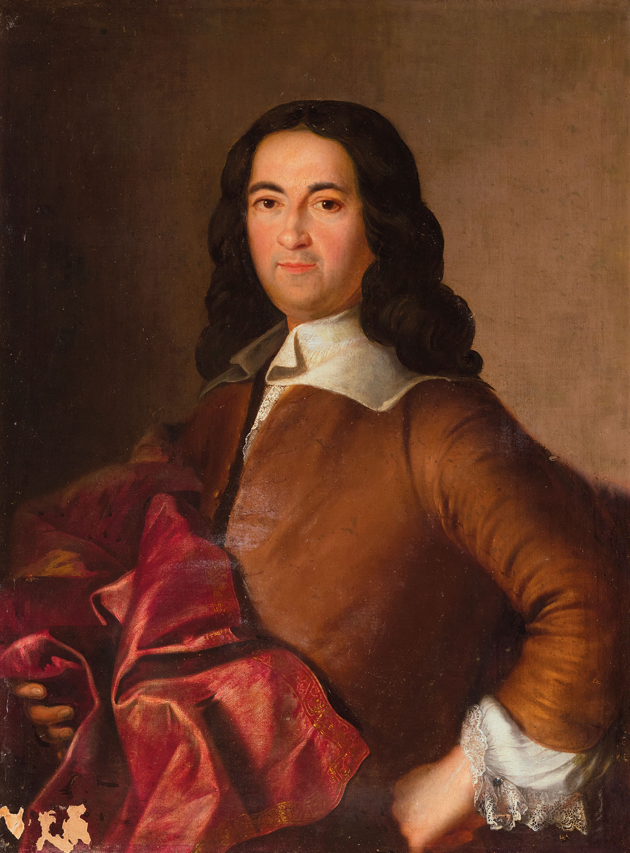 Giovan Girolamo II Acquaviva d'Aragona